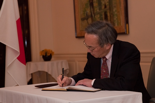 Steven Chu, Secretary of Energy, visited the Embassy of Japan in Washington, D.C., to sign a book of condolence for the victims of the recent tsunami and earthquakes that have impacted the country on March 25, 2011.